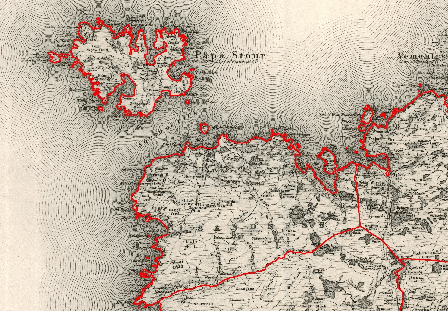 map of historic Sandness Parish, Shetland